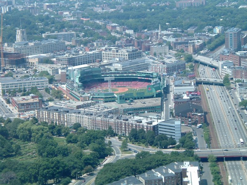 Photo of Fenway Park taken from the Prudential Tower SkyDECK